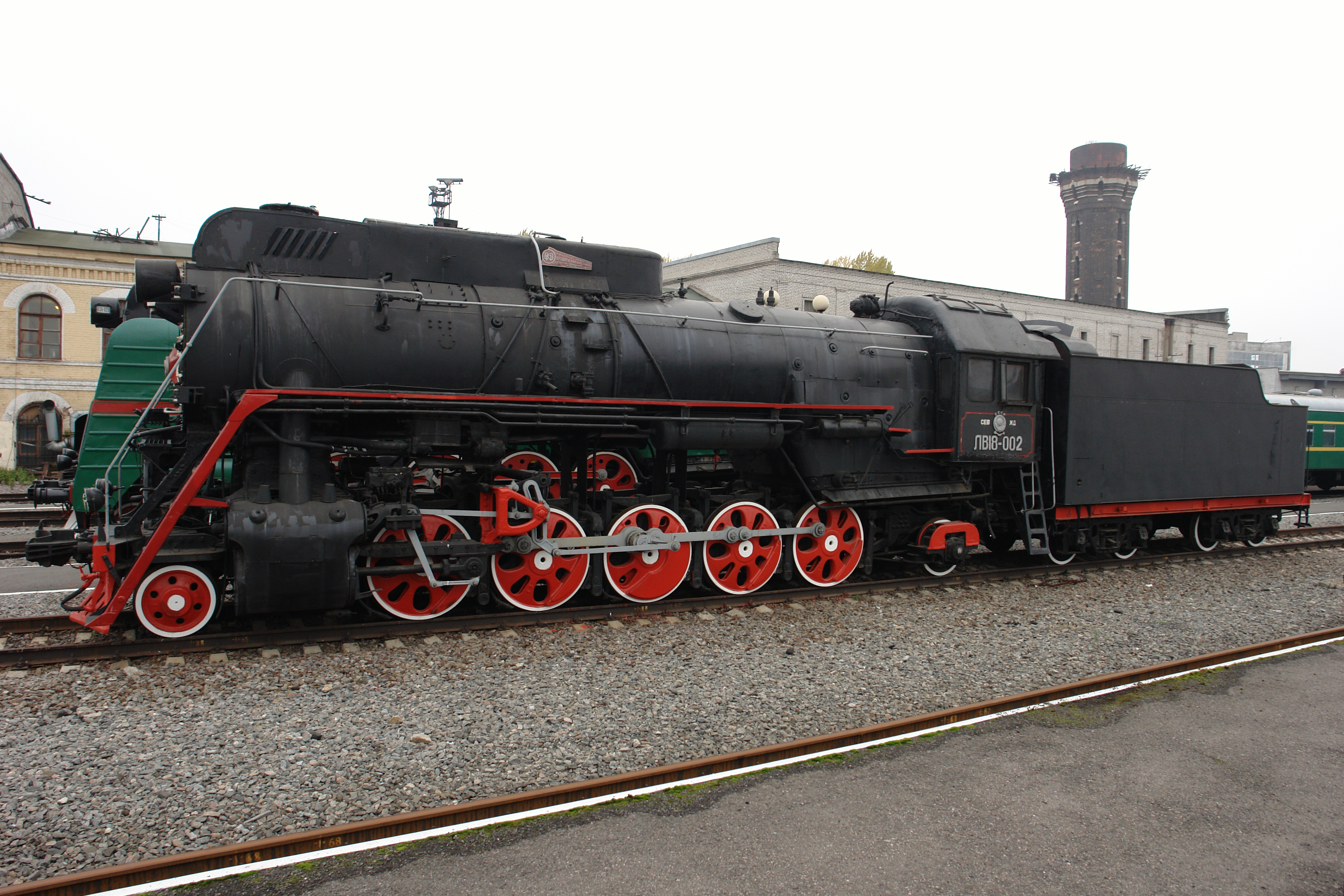 Cargo locomotive OF LVY8-002 (ORY8-002) Weight steam in working order:without tender12 tonsstenderom130 tonnesKonstruktsionnaya speed80 km / h.maximum power at the rim of the wheel2600 PS Built in the Voroshilovgradskim Parovozostroitelnym factory. The October Revolution of 1953. Served at Moskovsko-Ryazanskoy and Northern Iron roads until 1982. Ispolzovalsya as boiler enterprise "Komiavtostroy." Delivered to the museum in the city of Syktyvkar, in 1996. Railway Technology Museum, St. Petersburg